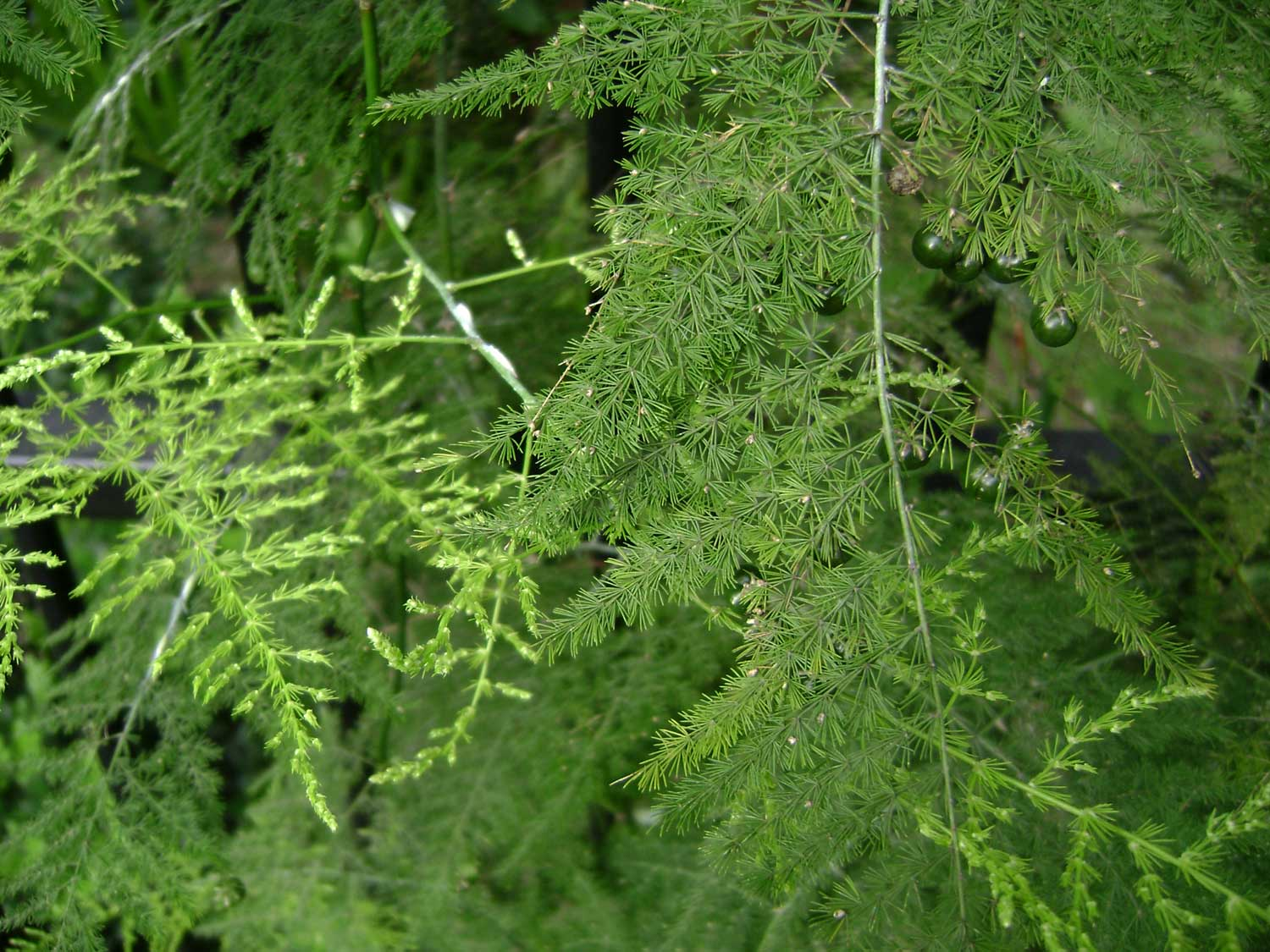 Asparagus plumosus with berries (unripe); {tāupoʻou} a weed in Tonga